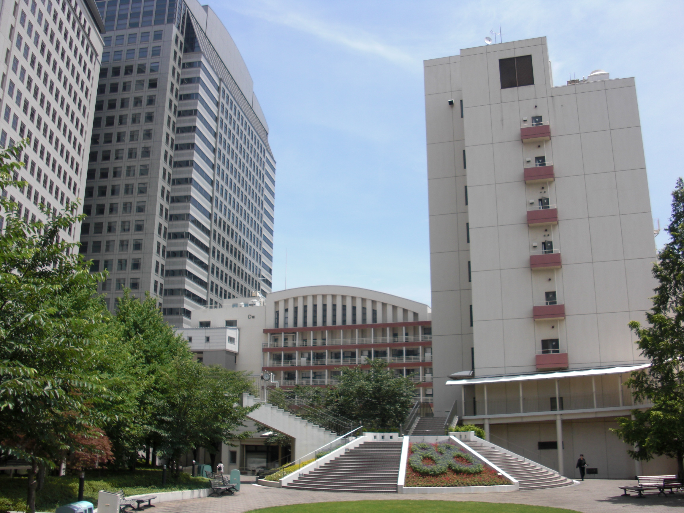 This is a photo which was taken in Bunka Gakuen University Shintoshin Campus.